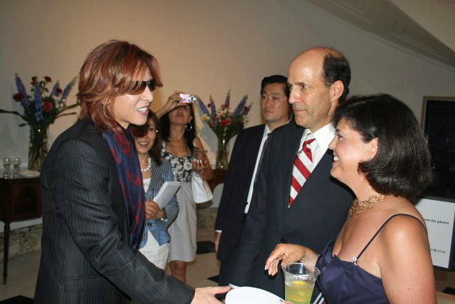 John Roos (the second from the right) with Yoshiki (on the left end) at the Independence Day Party in 2010.